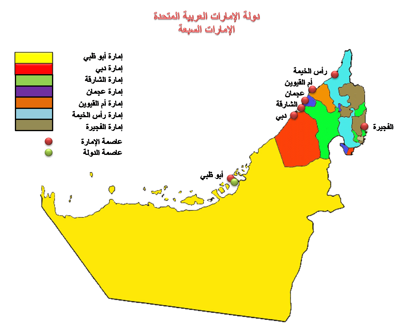 Map of the United Arab Emirates